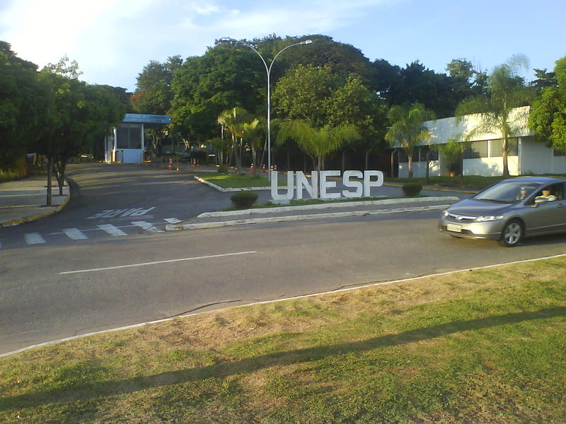 Entrance of UNESP (São Paulo State University), Guaratinguetá campus.